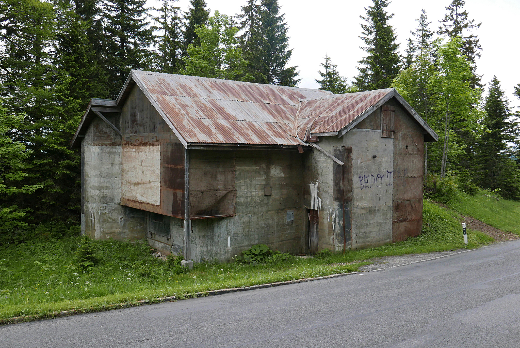 Bunker on the Marchairuz Pass road in Le Chenit: Infanteriebunker Marchairuz Nord A 626, 1 Mg, Koordinate 509037/156824